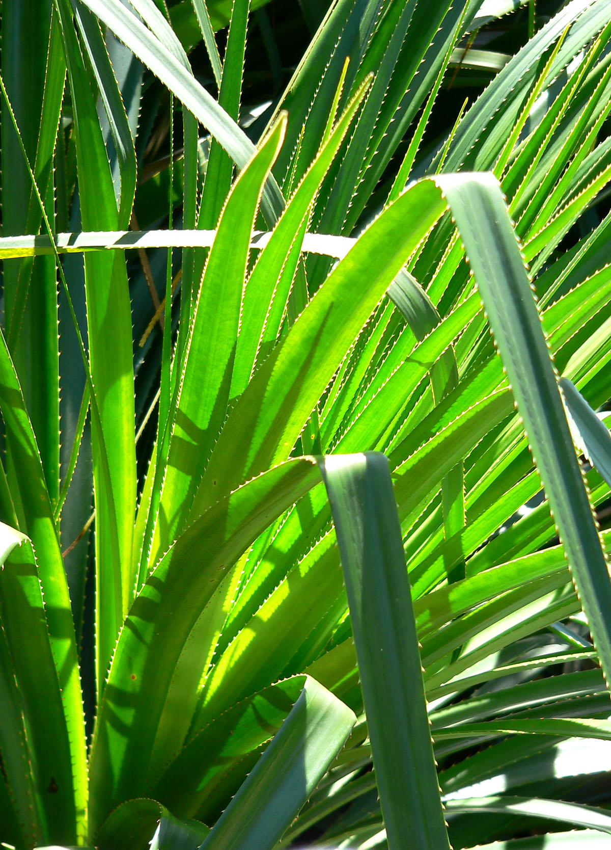 Greigia sphacelata at the University of California Botanical Garden, Berkeley, California